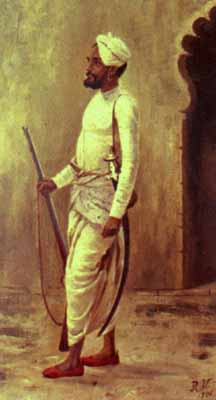 Rajaputra soldier